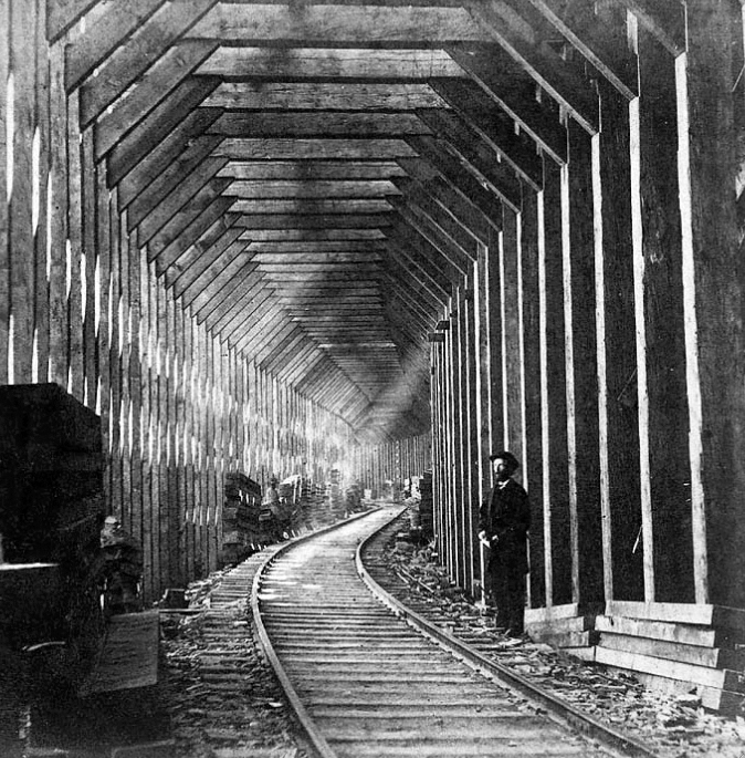 Snow gallery at Crested Peak (detail), built by the Central Pacific Railroad.